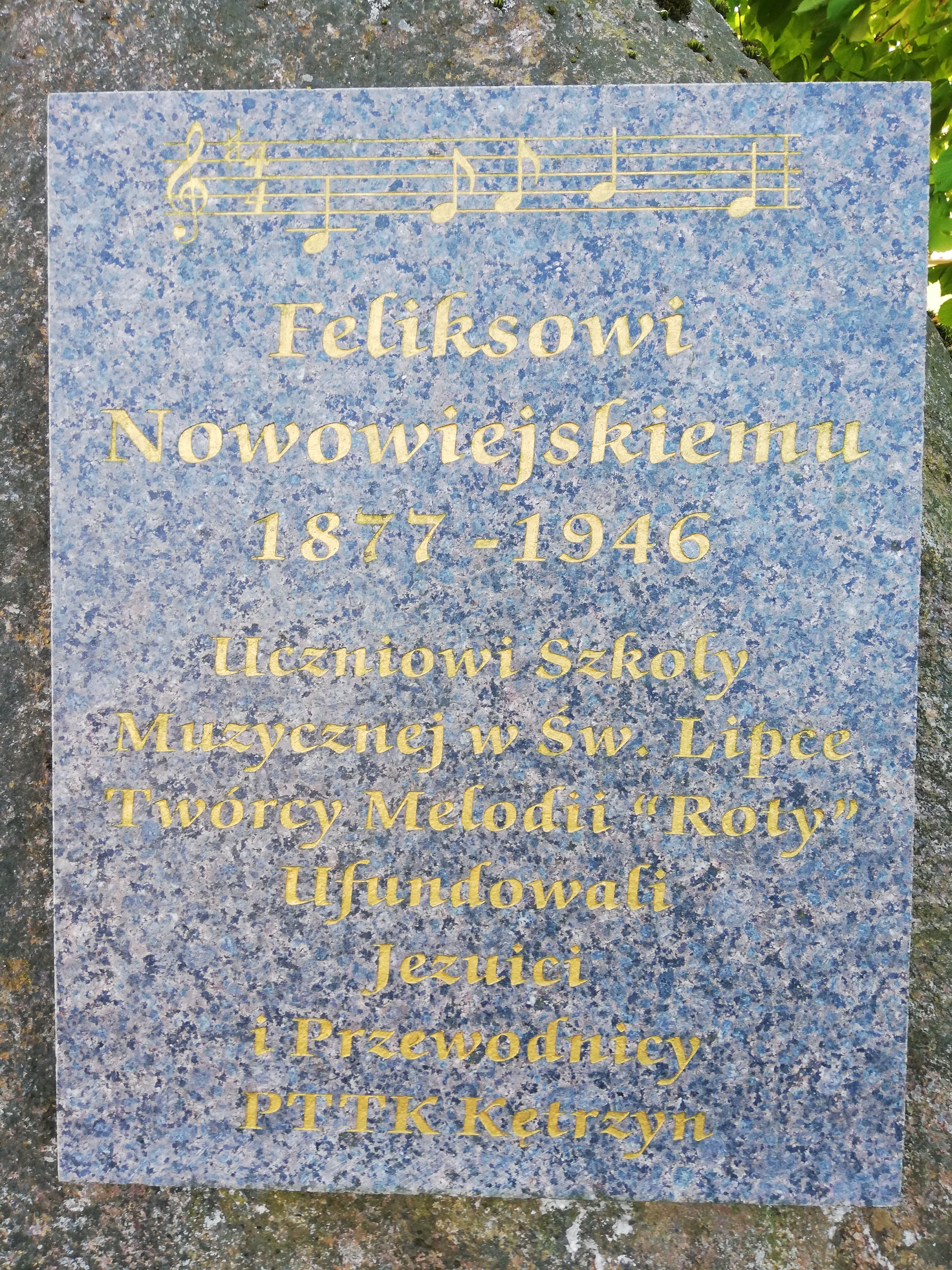 Nowowiejski Feliks - Commemorative plaque in Święta Lipka, detail